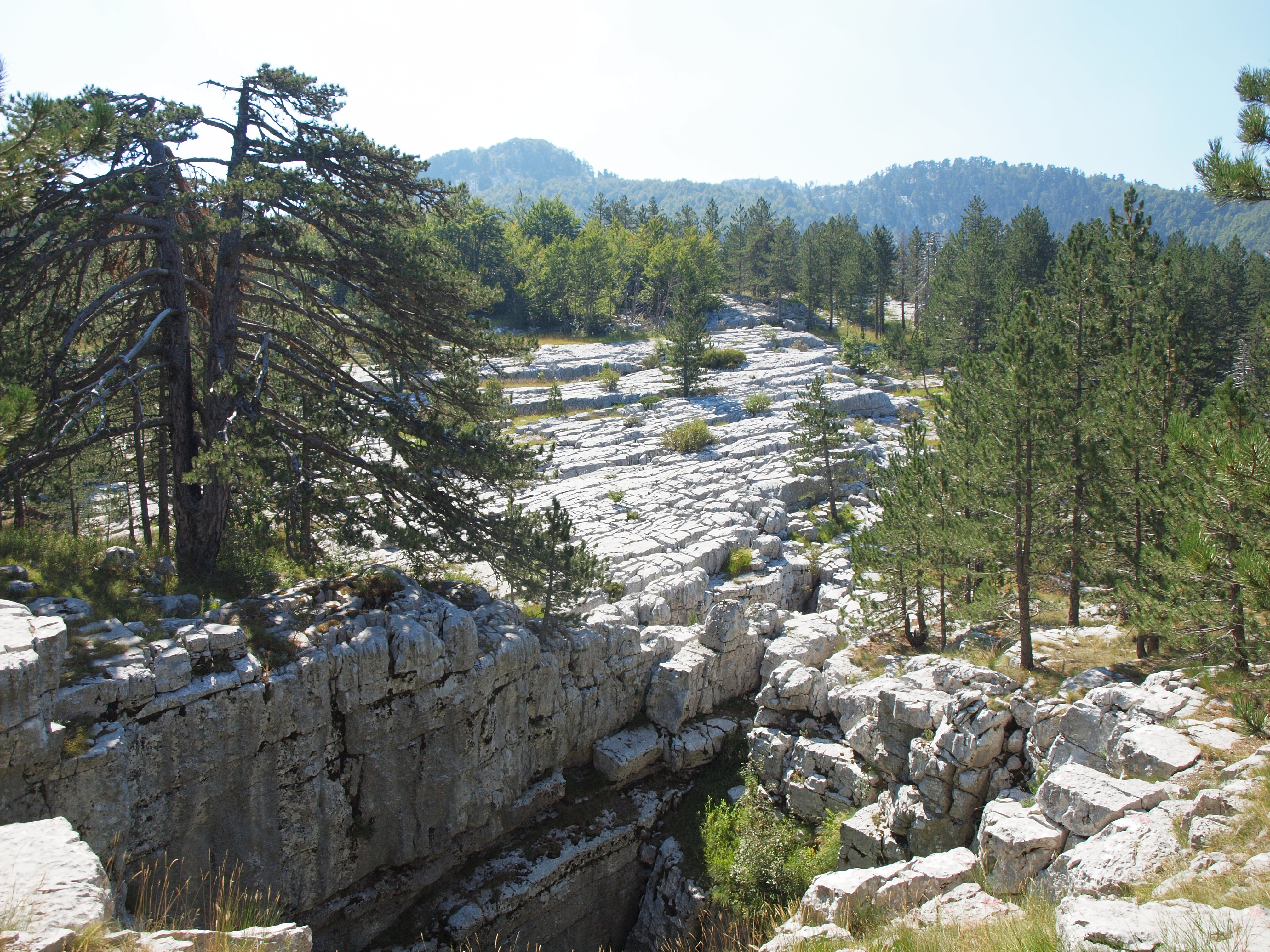 Carbonate platform of the dinaric alps, karst geomorphy Bijela gora Montenegro